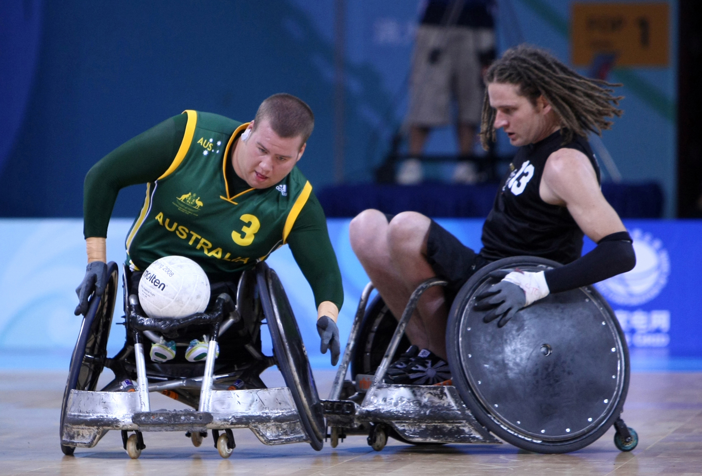 Australian wheelchair rugby player Ryley Batt evades New Zealand defender and captain Daniel Buckingham during the game against New Zealand at the Beijing 2008 Paralympic Games.